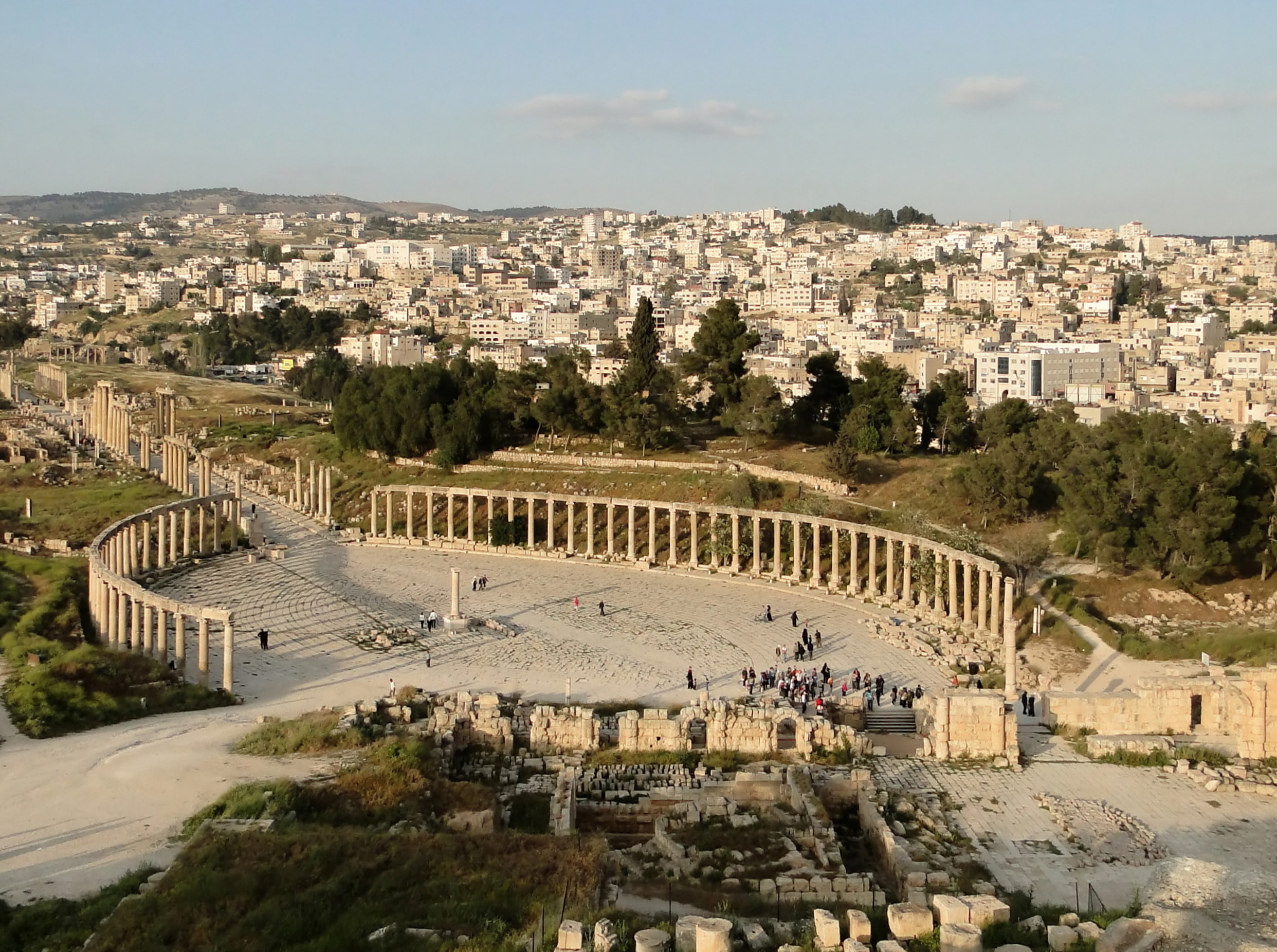 The Oval forum and the Cardo maximus of Jerash seen from the South theater, Jordan